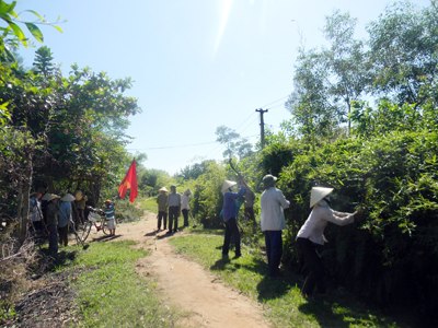 very good